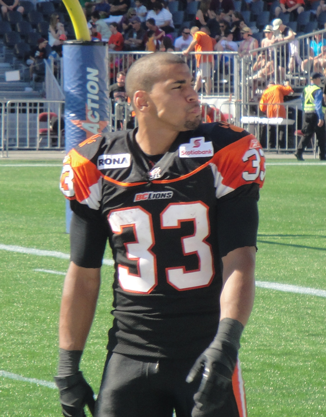 Andrew Harris during the last game at Empire Field.